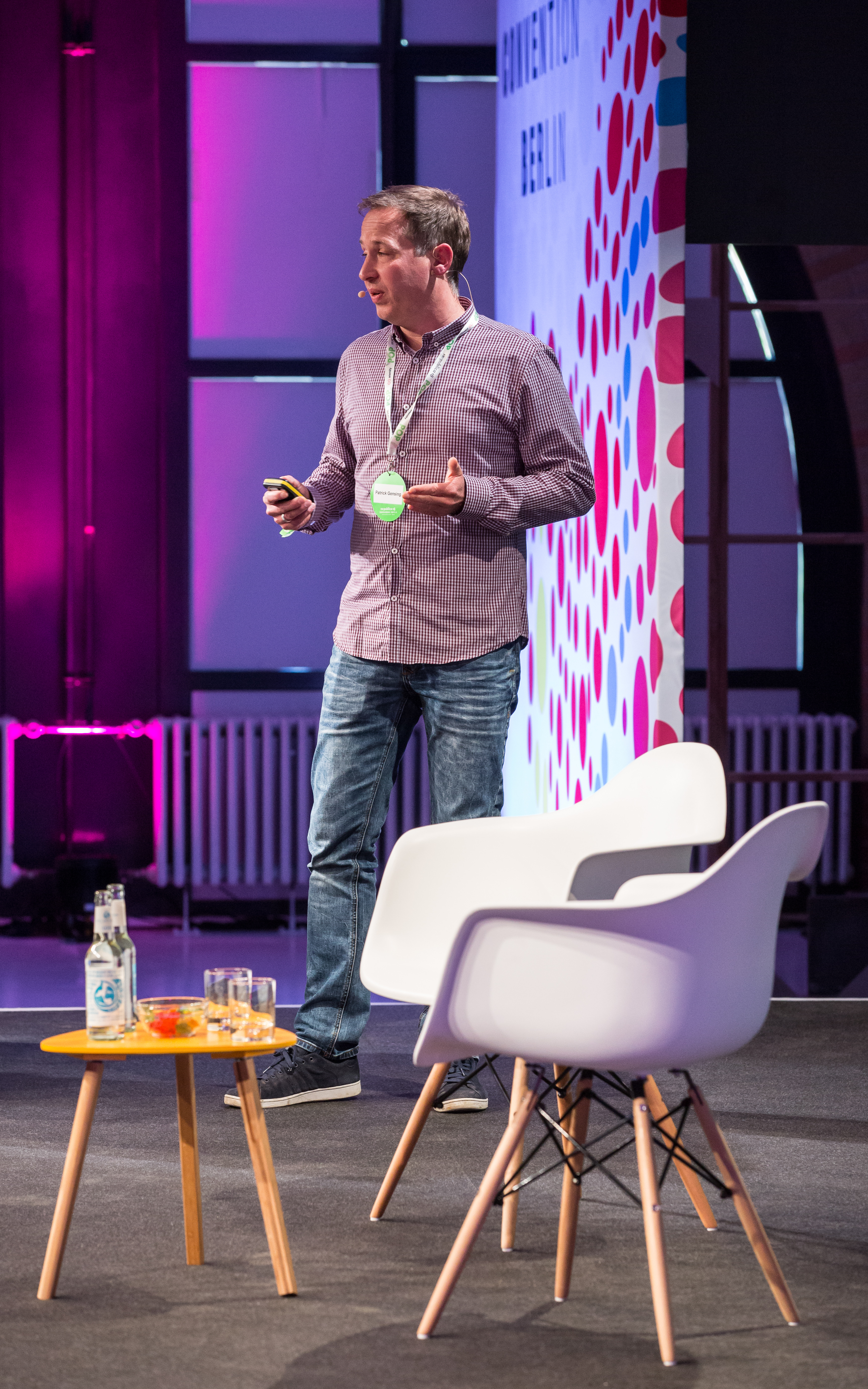 Patrick Gensing at the Media Convention Berlin 2018 / :Re:publica 18